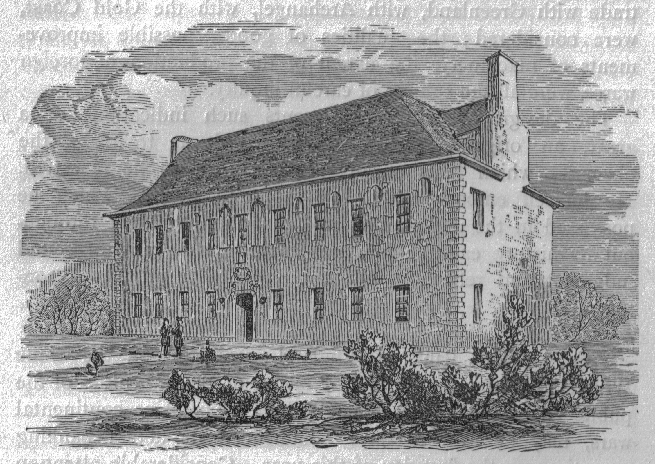 The HQ in Edinburgh of the Darien Company - The African Company. 18th C, Now demolished.